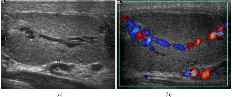 Scrotal ultrasonography of an intratesticular varicocele.